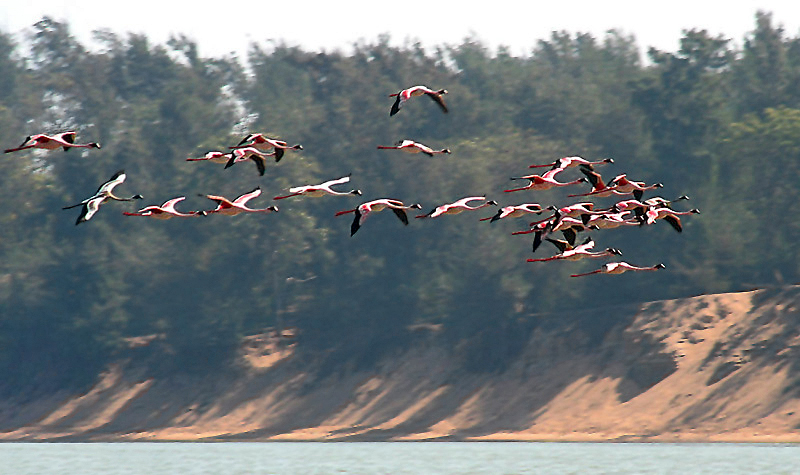 Lesser Flamingo Phoenicopterus minor in Chilika, Orissa, India.